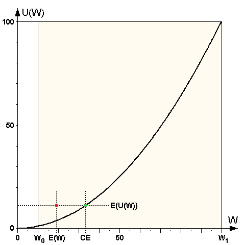 Risk affinity, type 1, case 0